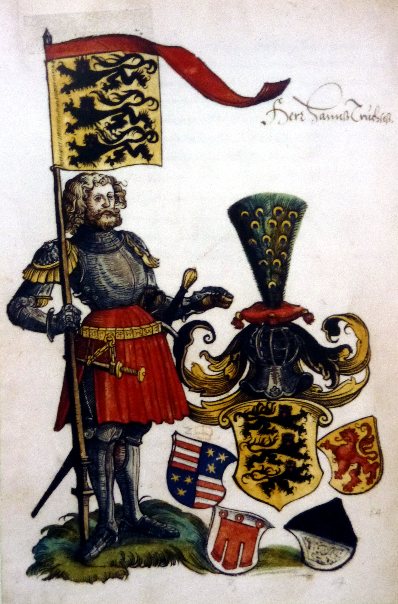 Johannes II. von Waldburg, named Hans with the four wives, House Waldburg